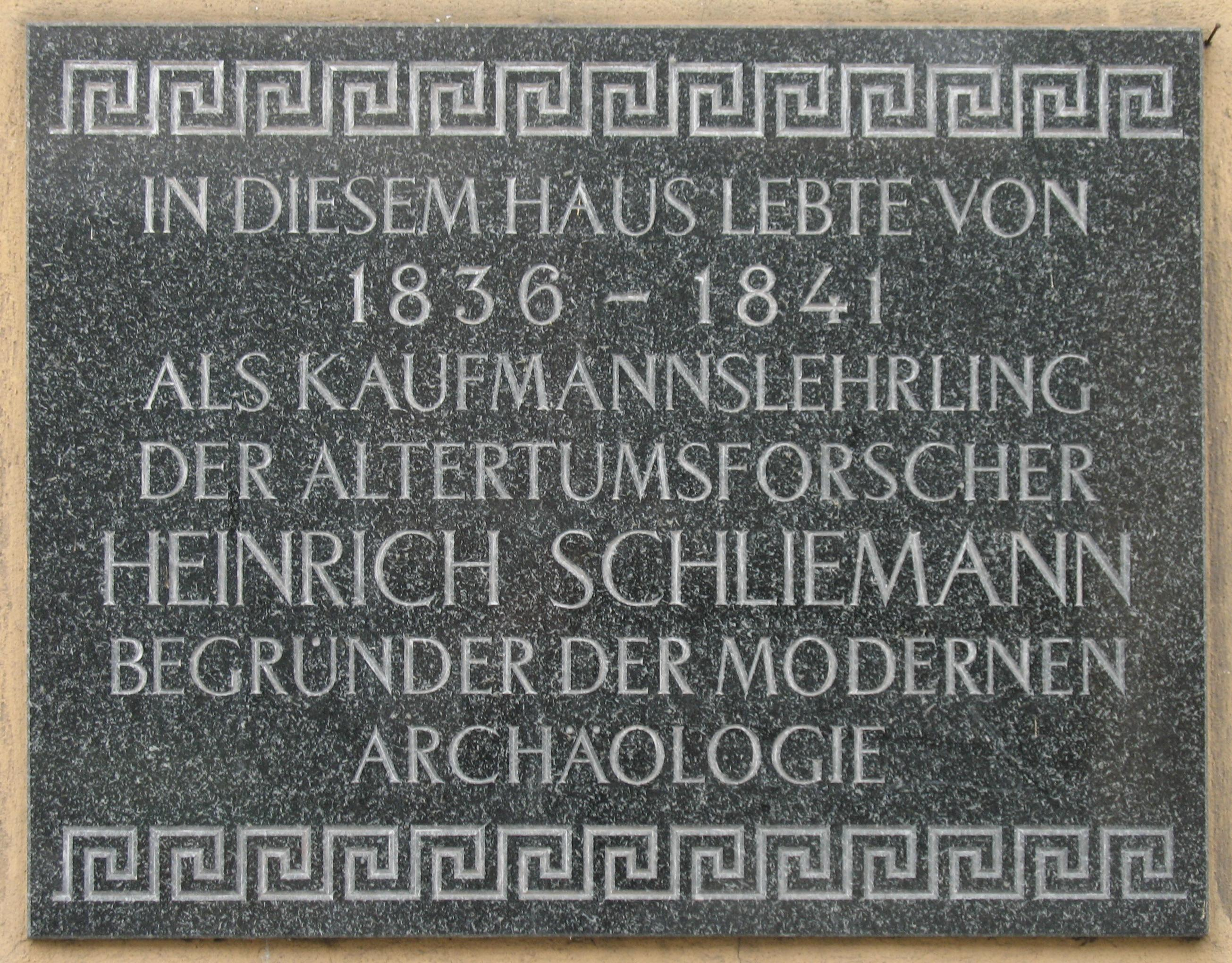 Memorial tablet to Heinrich Schliemann in Fürstenberg in Brandenburg, Germany